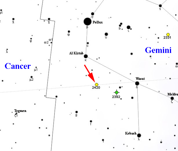 Map of NGC 2420